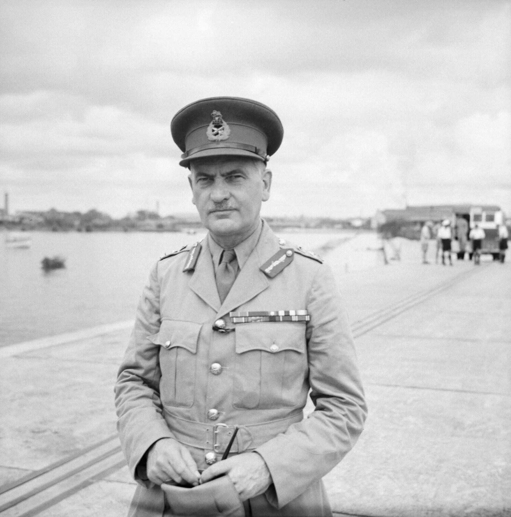 General Sir Henry Pownall arrives at Singapore to take up his appointment as C-in-C Far East, December 1941.